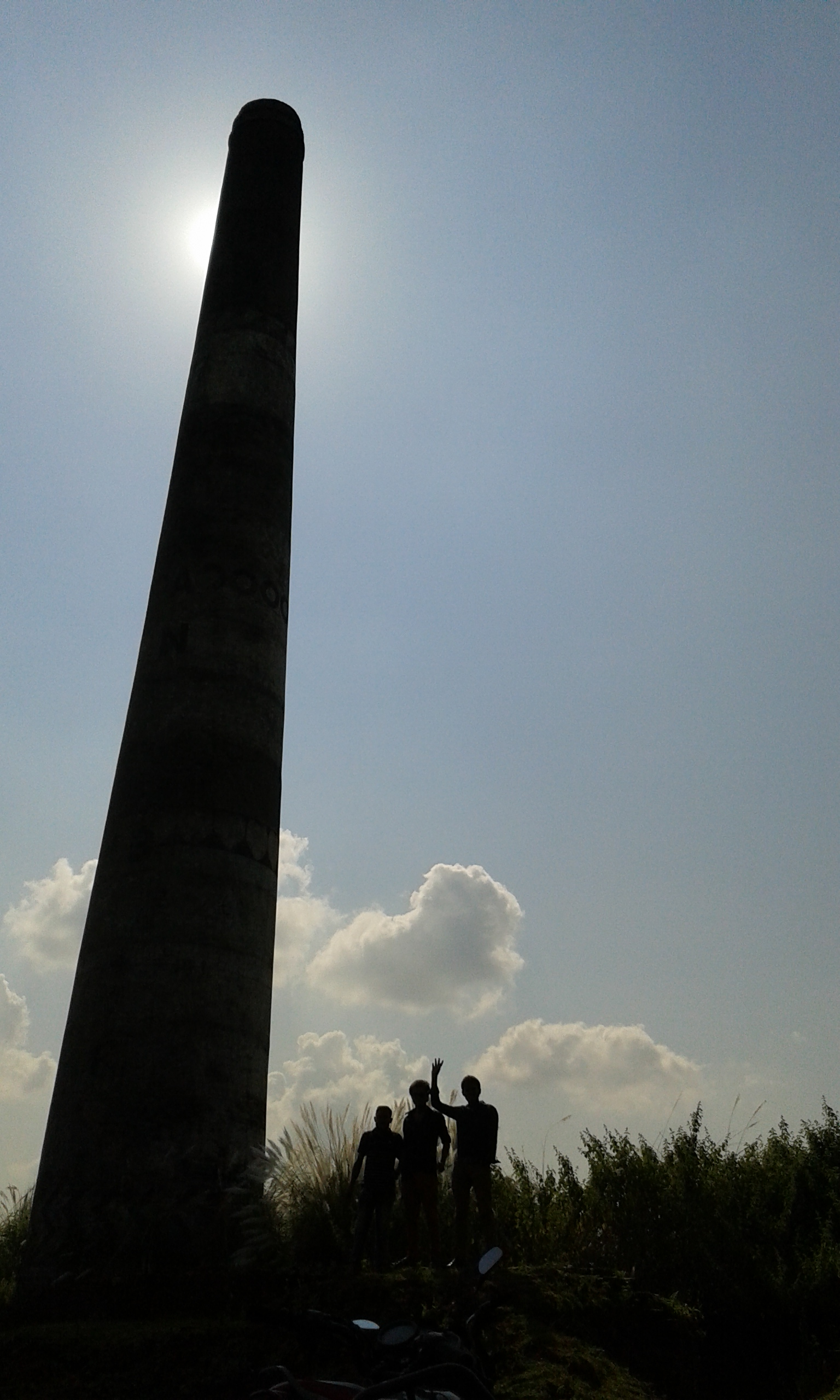 ইহা লালমোনিরহাট জেলার দহোগ্রাম থেকে তোলা।